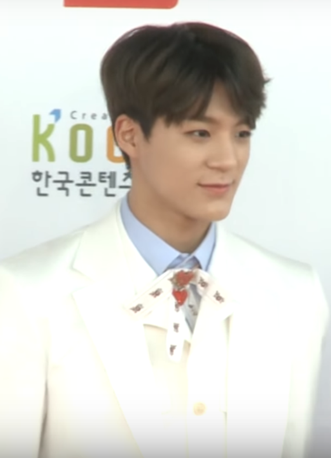 Lee Je-no at Dream Concert on June 3, 2017.